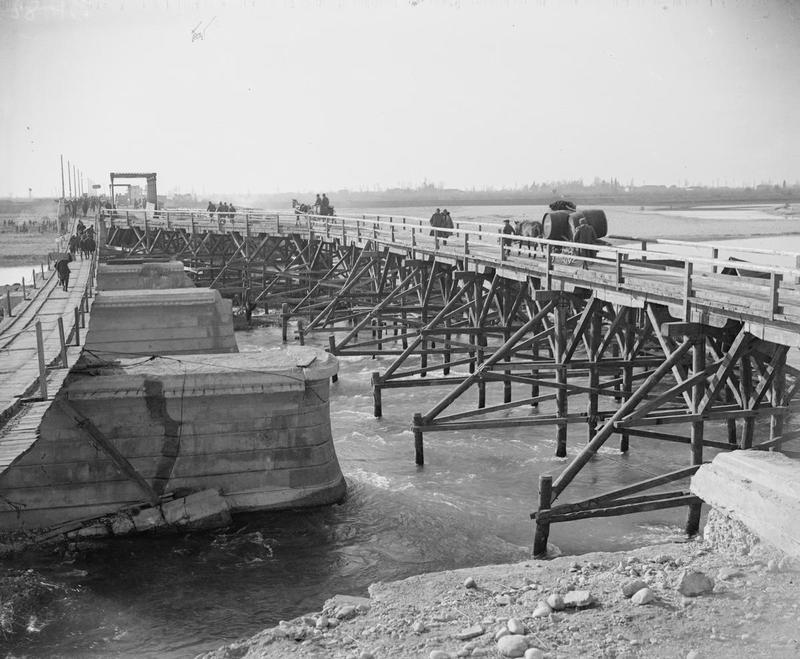 Ministry of Information First World War Official Collection Temporary wooden bridge over the River Piave.